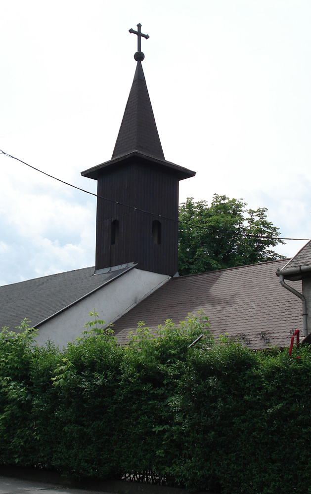 Carmelite Chapel or Saint Teresa of Ávila church in Miskolc, Hungary